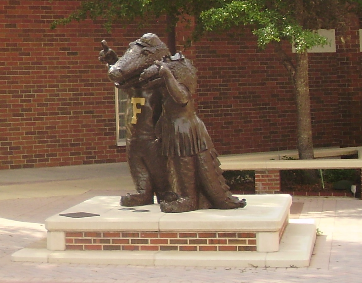 Albert & Alberta statue at the Development and Alumni Affairs Building at the University of Florida